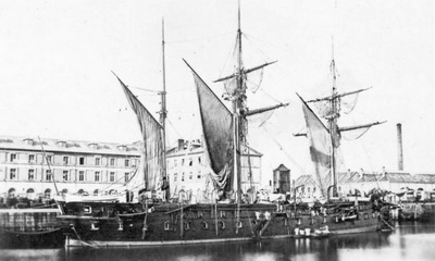 Guyenne (1865) - Broadside ironclad Provence class 5,700 - 6,122 tons launched 1865 - stricken 1882